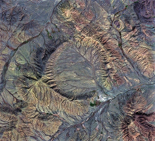 Shunak meteorite impact crater in the southeastern part of Qaraghandy Province in Kazakhstan, Sentinel-2 satellite image, spatial resolution 10 m, 2018-SEP-14